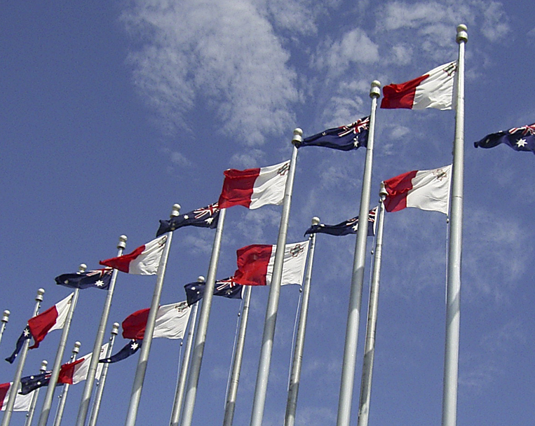 Maltese and Australian flags flying outside Parliament House in Canberra, Australia, in honour of a state visit to Australia by the Maltese President Edward Fenech-Adami.